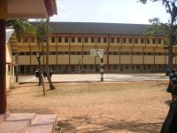 The Play Ground of Bhavans Vidya Mandir Elamakkara